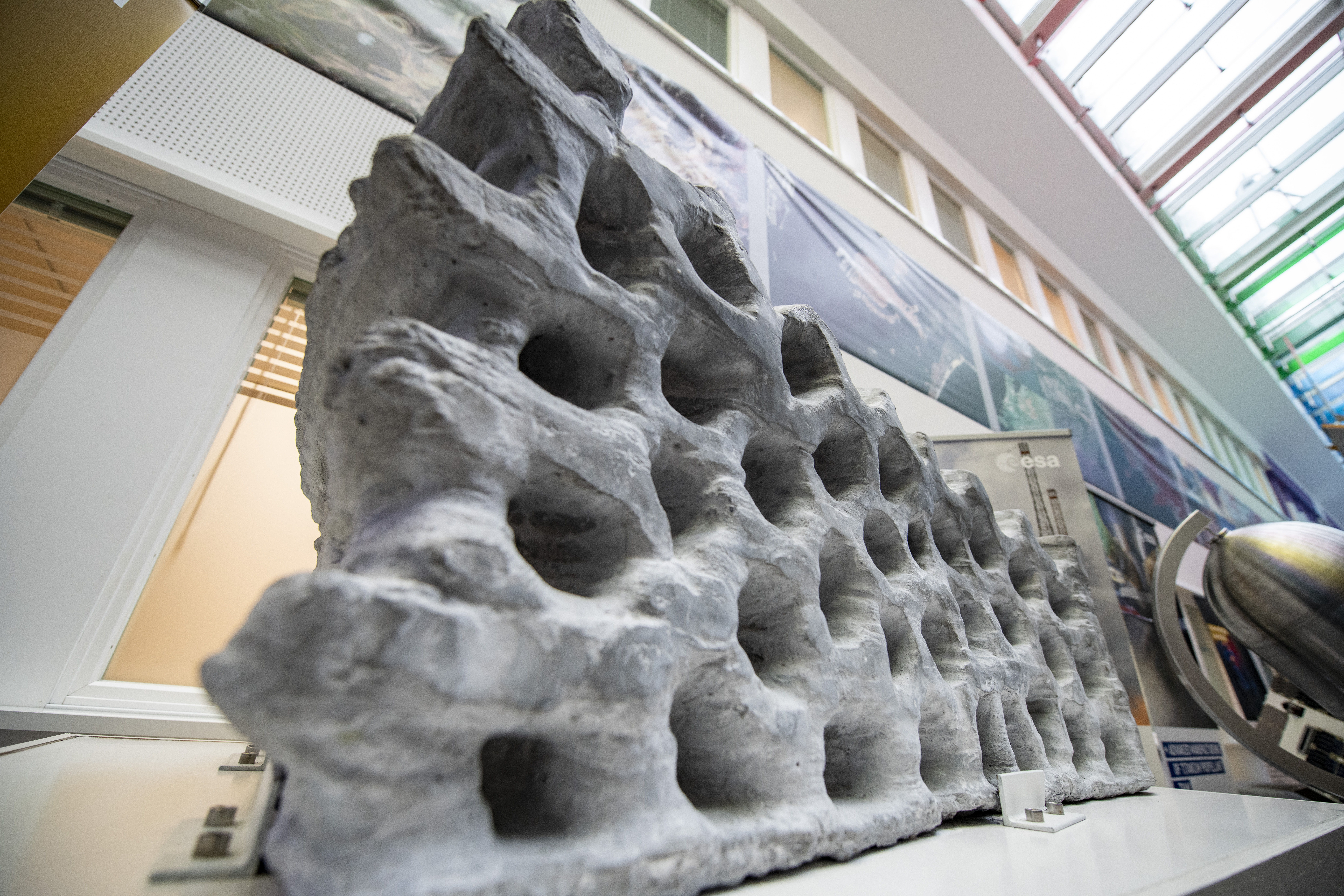 This 1.5 tonne block was 3D printed from simulated lunar dust, to demonstrate the feasibility of constructing a Moon base using local materials. The building block is on show in the laboratory corridor of ESA’s ESTEC technical centre in the Netherlands, visited during public tours from neighbouring Space Expo. Produced using a binding salt as ‘ink’, its design is based on a hollow closed-cell structure – combining strength with low weight, similar to bird bones. The structure was made during an initial feasibility project on lunar 3D printing. ESA has subsequently investigated other types of lunar 3D printing, including solar sintering and ceramics. A recently completed study also looked into all the ways that 3D printing could contribute to the construction and operation of a lunar base, and included a competition asking the public for ideas to 3D print to make the Moon feel like home.